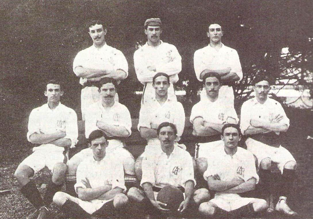 Club Athlético Paulistano football in 1905, when the club won its first Campeonato Paulista.